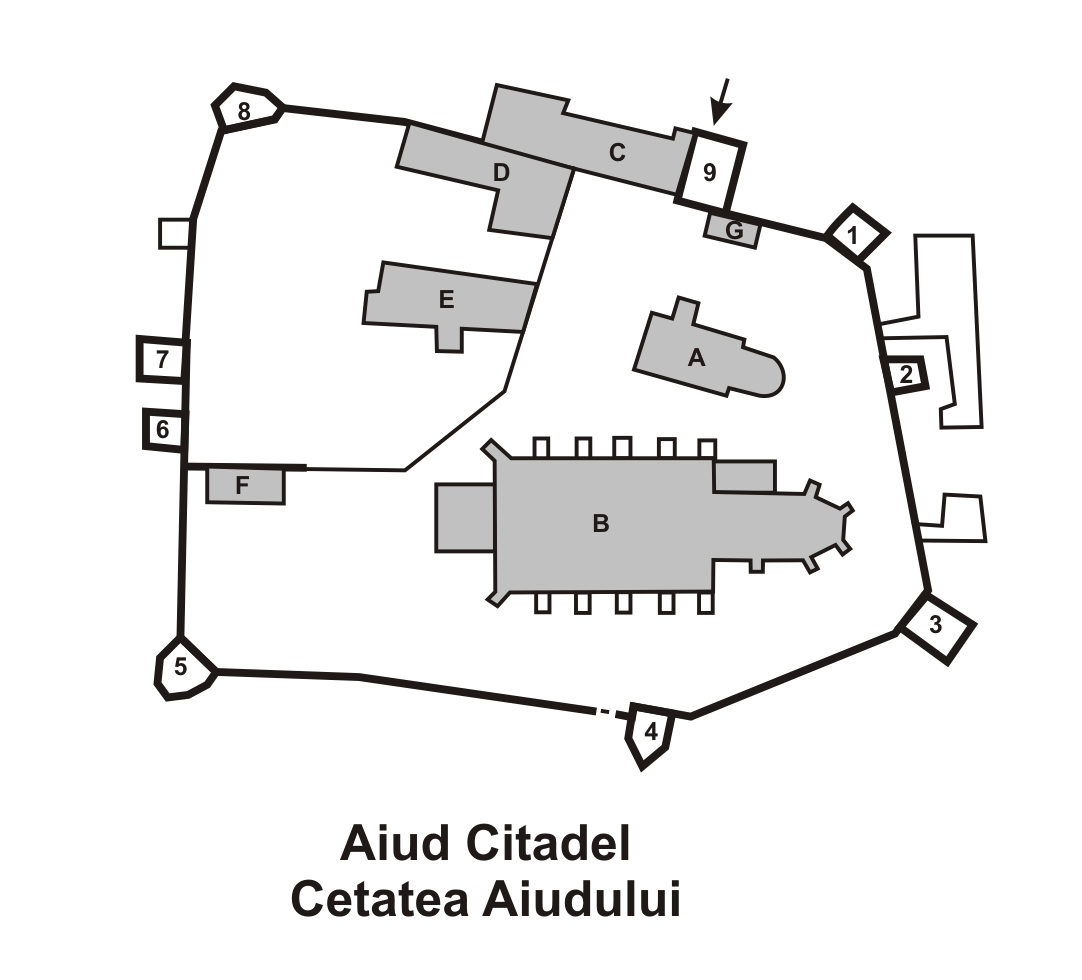 Citadel in Aiud city, Romania